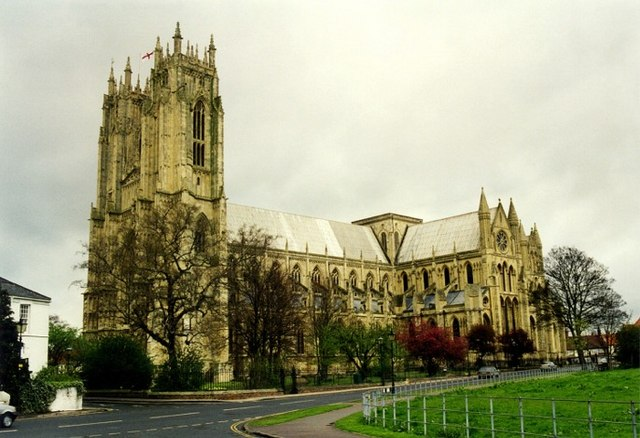 Beverley Minster, Beverley, East Riding of Yorkshire, England.